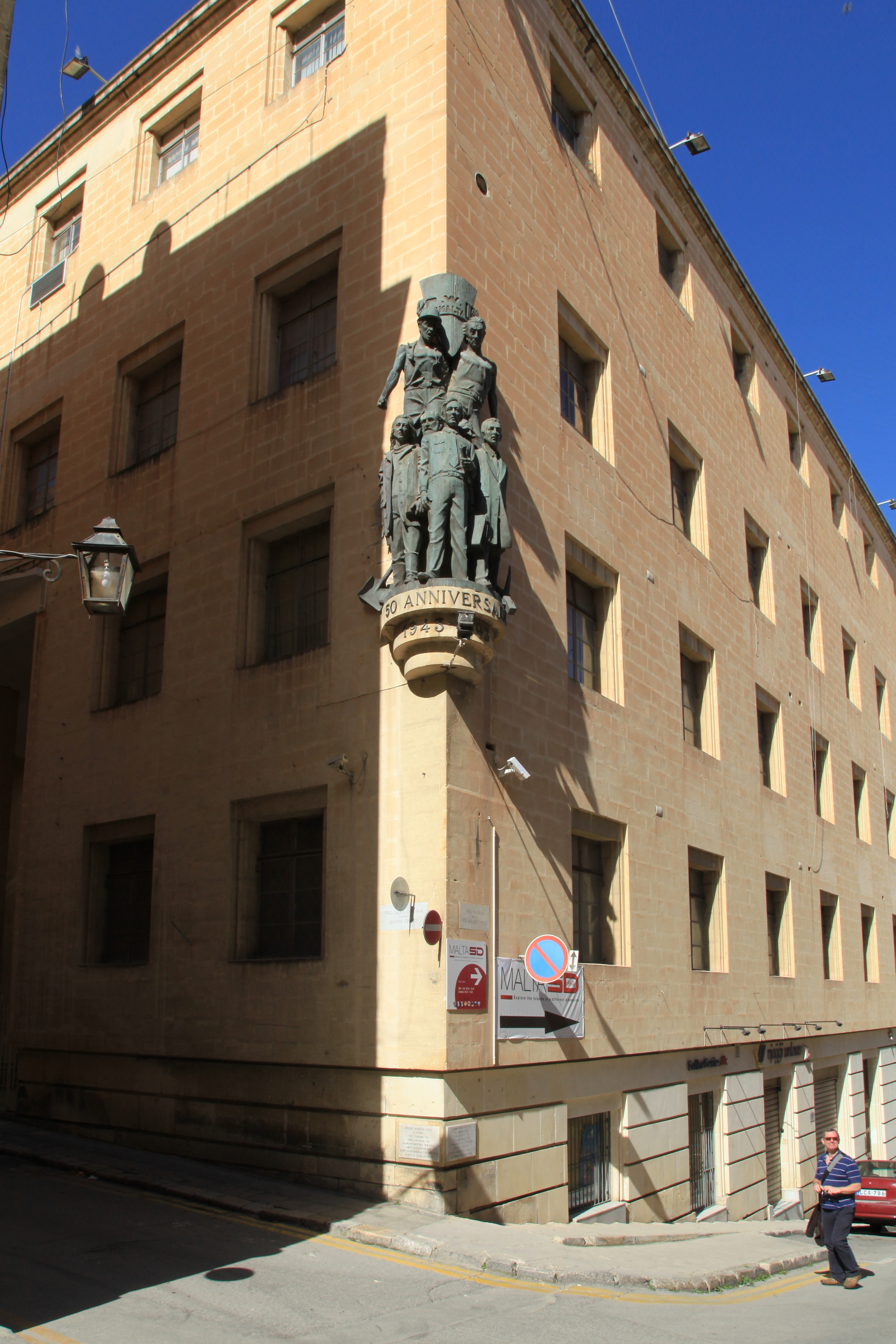 Workers' Memorial Building, Triq il-Fran / Triq Nofs-in-Nhar in Valletta, Malta